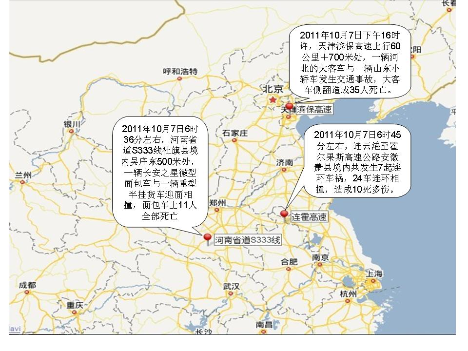 China 20111007 Traffic accident